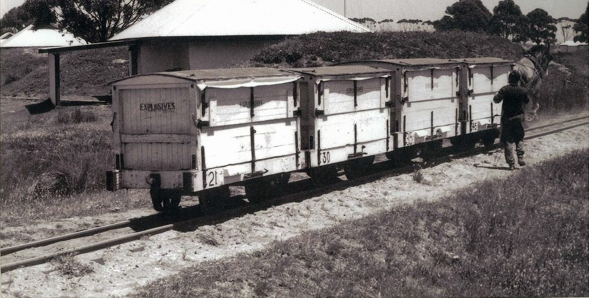 Horse-drawn explosives train, Altona, Victoria